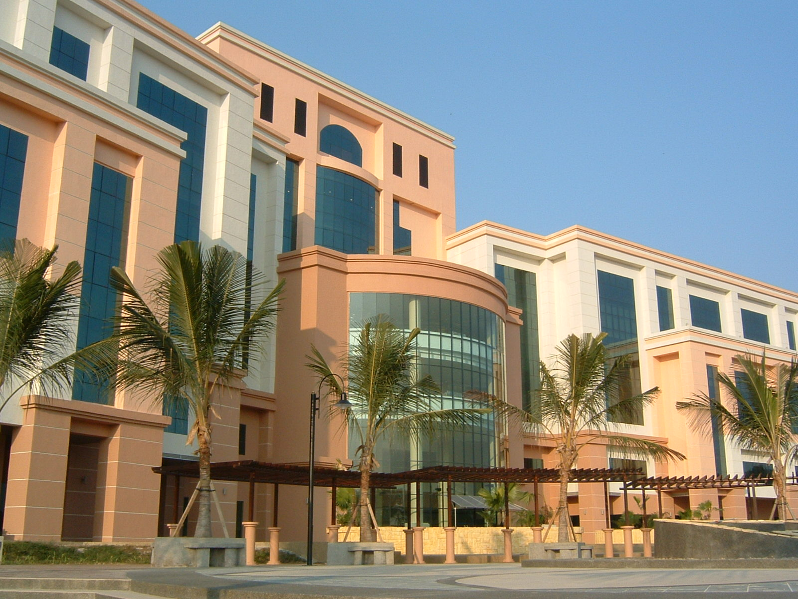 A photograph of the College of Information Technology in Universiti Tenaga Nasional.